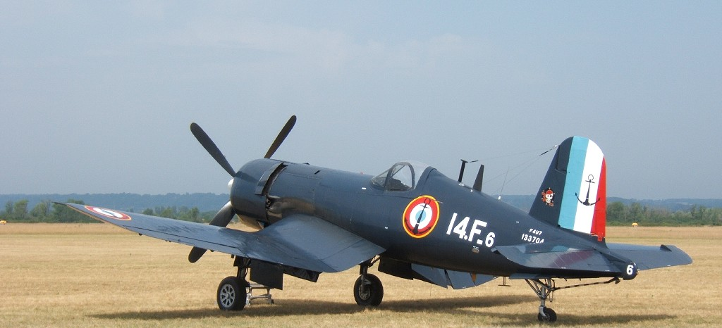 Chance Vought F4U-7 Corsair Former Argentinian F4U-5NL Bu#124541 modified in the F4U-7 standard with Bu #133704 Civil registration : F-AZYS Ancien F4U-5NL Bu#124541 argentin modifié au standard F4U-7